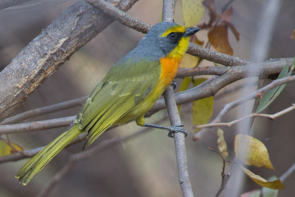 Orange-breasted Bush-shrike